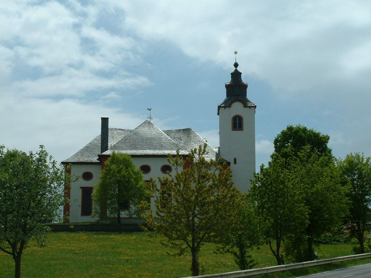 Protestant Church Kleinich